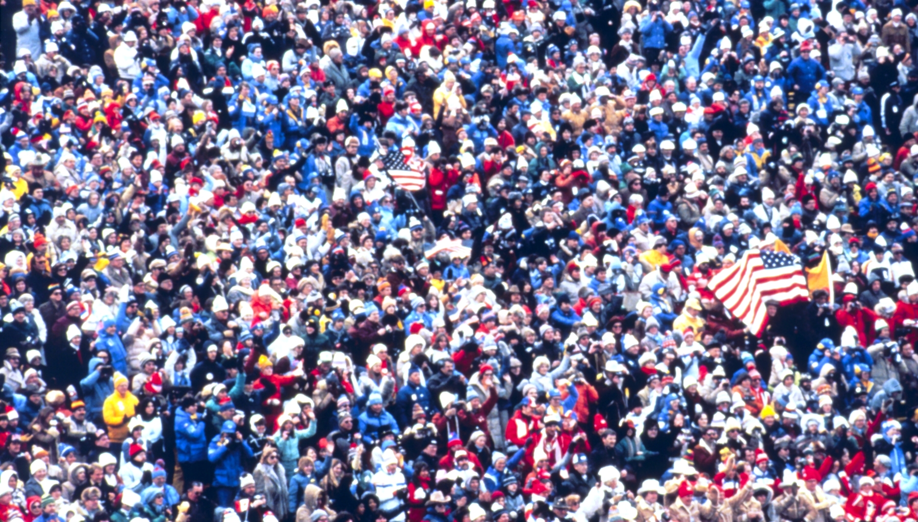 Audience at the 1980 Winter Olympics in Lake Placid.